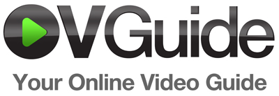 logo